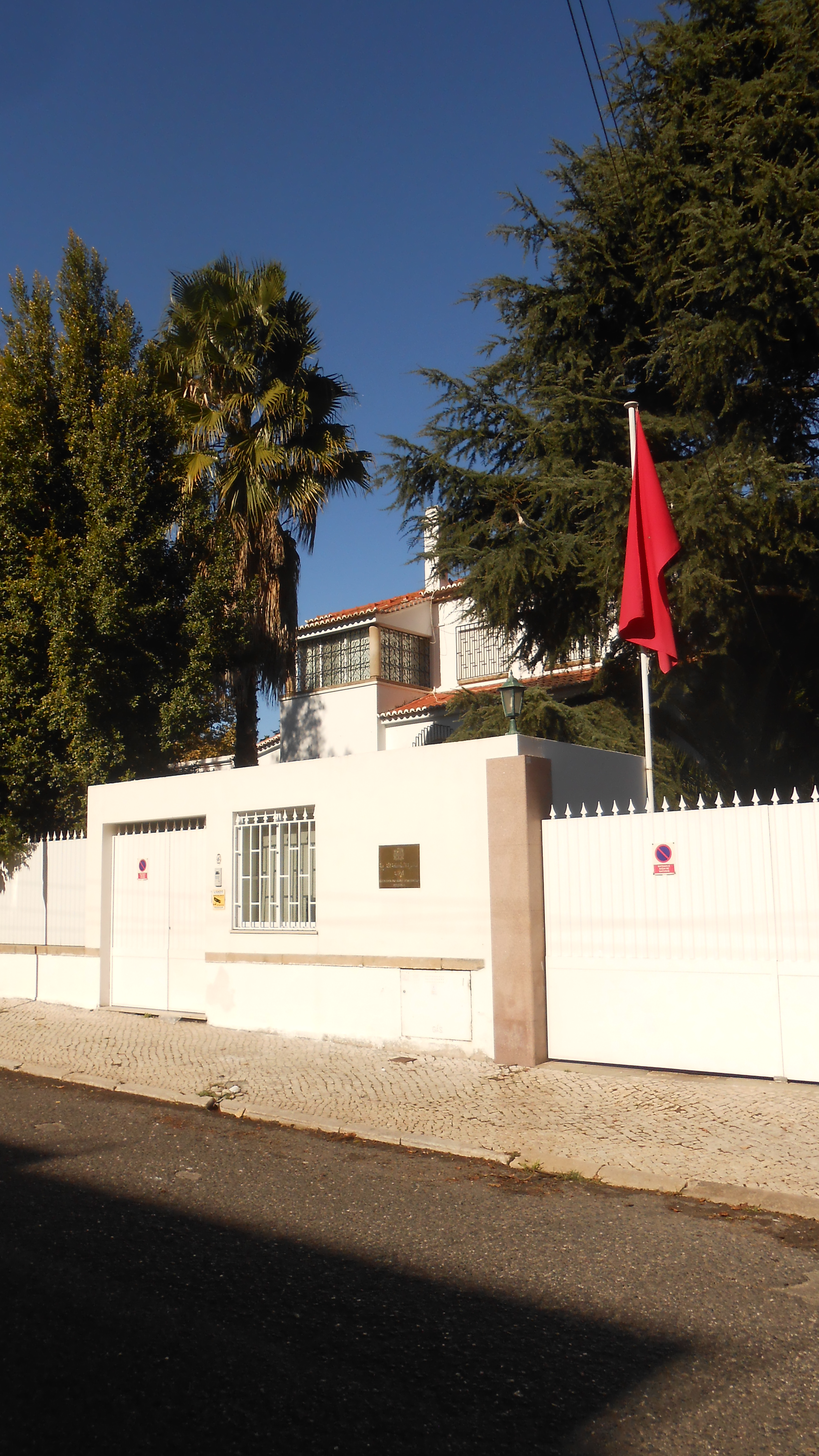 The moroccan embassy in Belém, a neighbourhood in Lisbon.